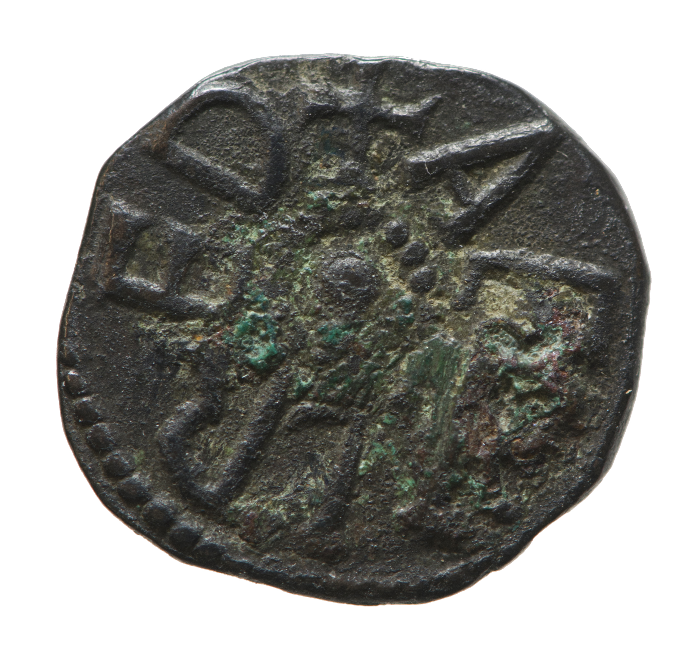 Obverse (front) of a silver styca of Æthelred_I_of_Northumbria_ Large pellet surrounded by small pellets.